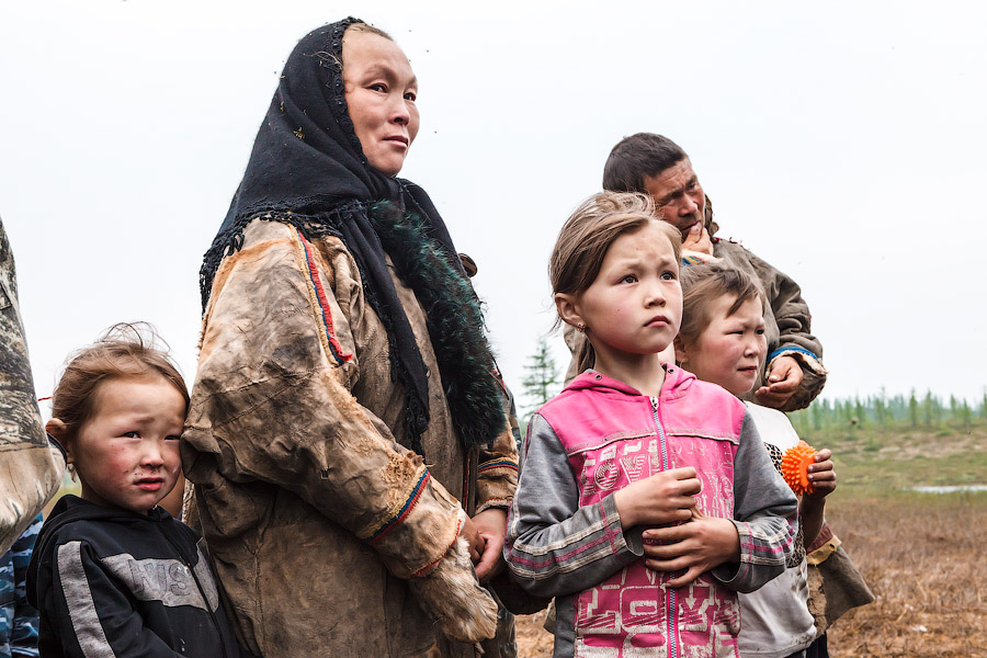 At our meeting - from small to large.